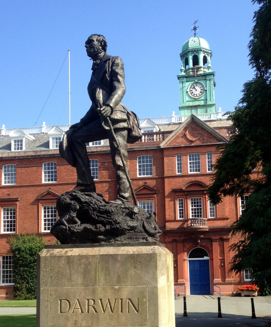 The Charles Darwin Monument (commissioned in 2000) at Shrewsbury School, Shrewsbury